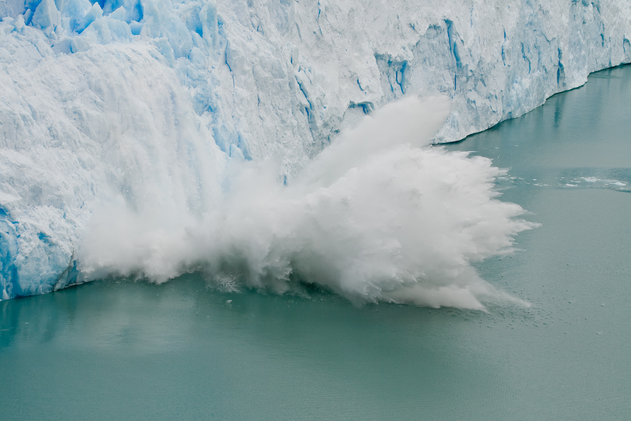 Perito Moreno Glacier, in Los Glaciares National Park, southern Argentina